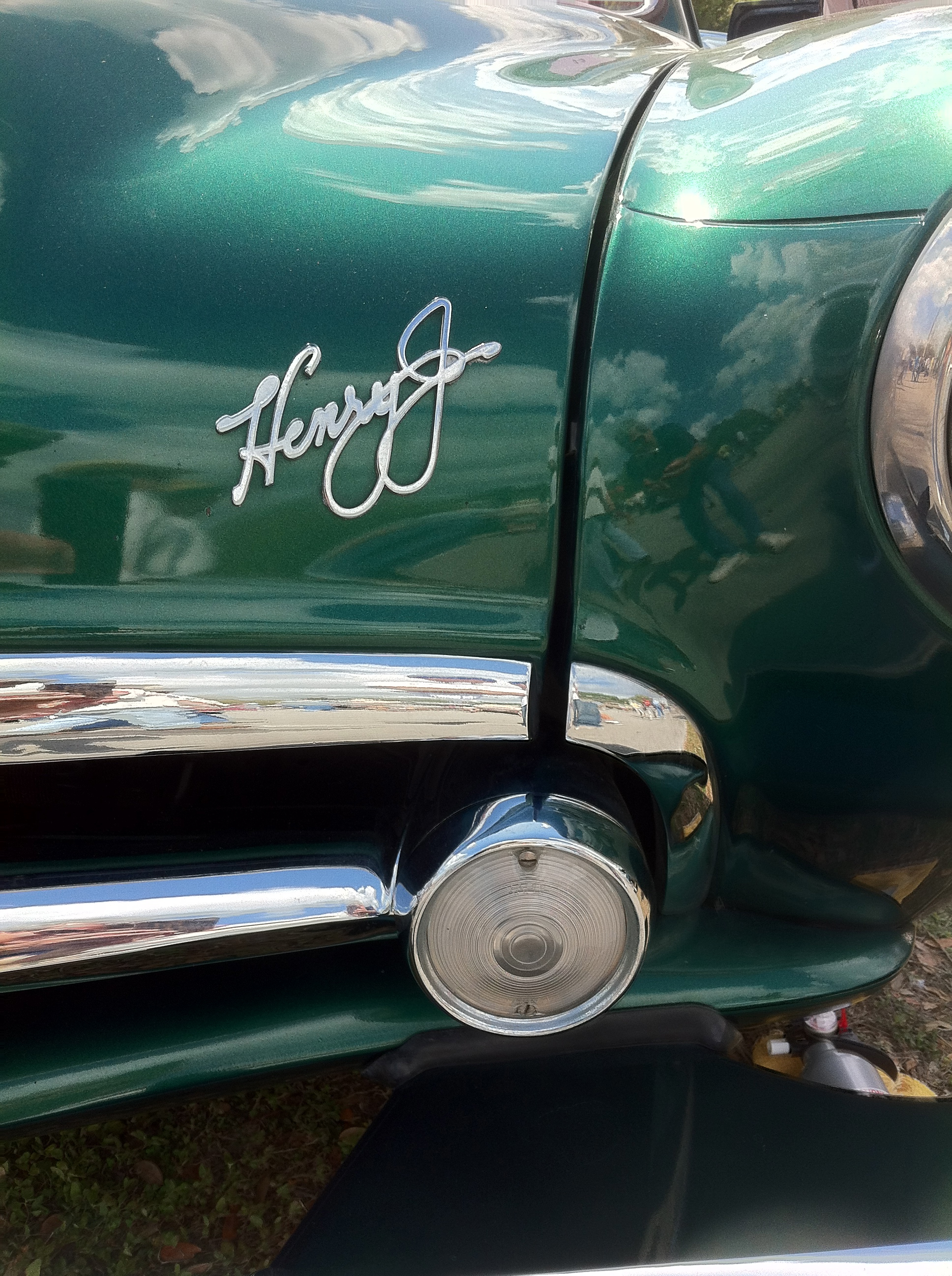 1951 Henry J automobile built by the Kaiser-Frazer Corporation. This is a compact-sized two-door sedan finished in green and powered by a 161 cu in (2.6 L) flat-head six-cylinder engine. Picture taken at the 2013 Antique Automobile Club of America (AACA) meet in Lakeland, Florida, USA.